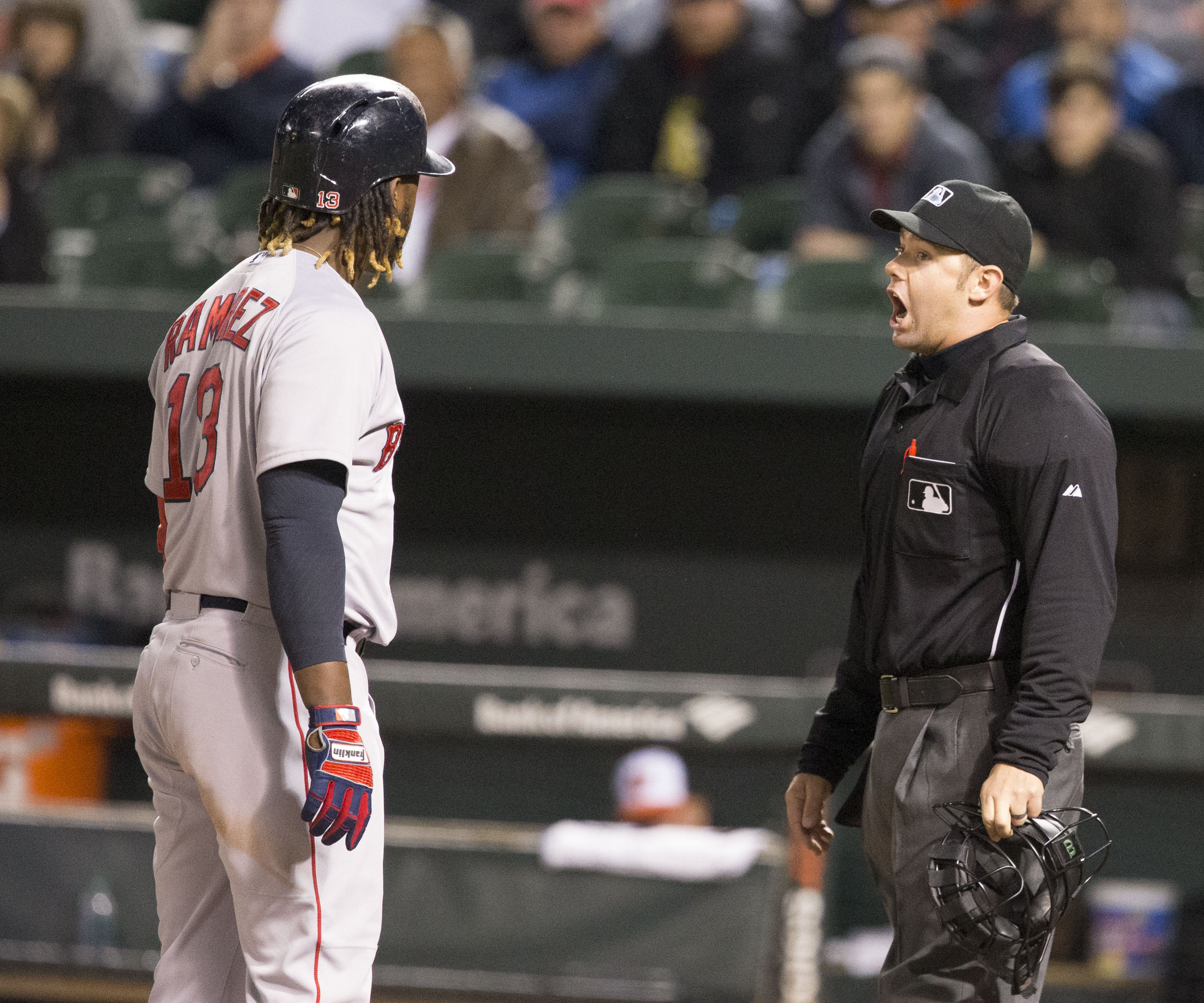 Umpire Will Little responds to Hanley Ramírez.